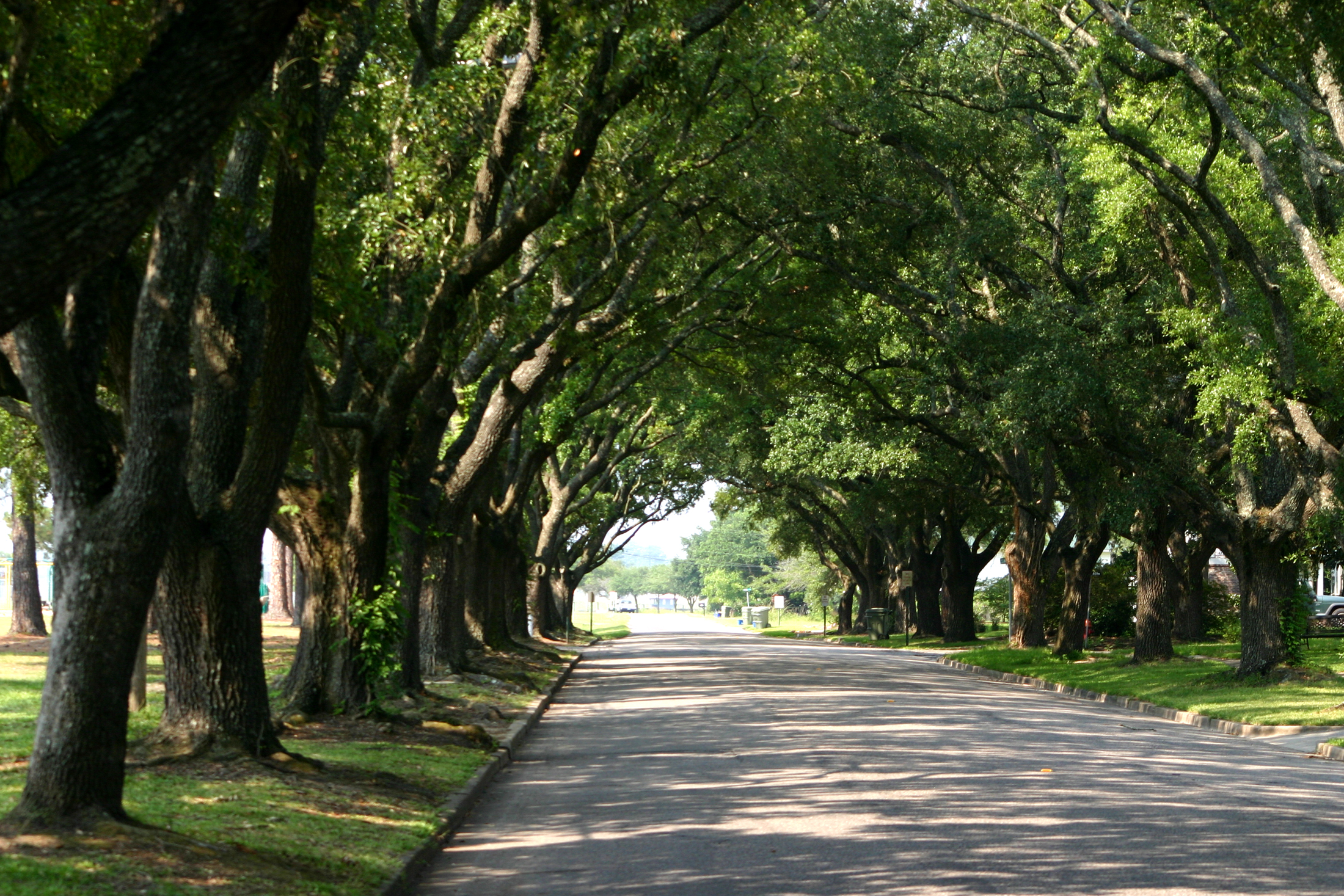 Most of the older neighborhoods have live oaks overarching the streets, such as these on East Bay Street. Georgetown, South Carolina